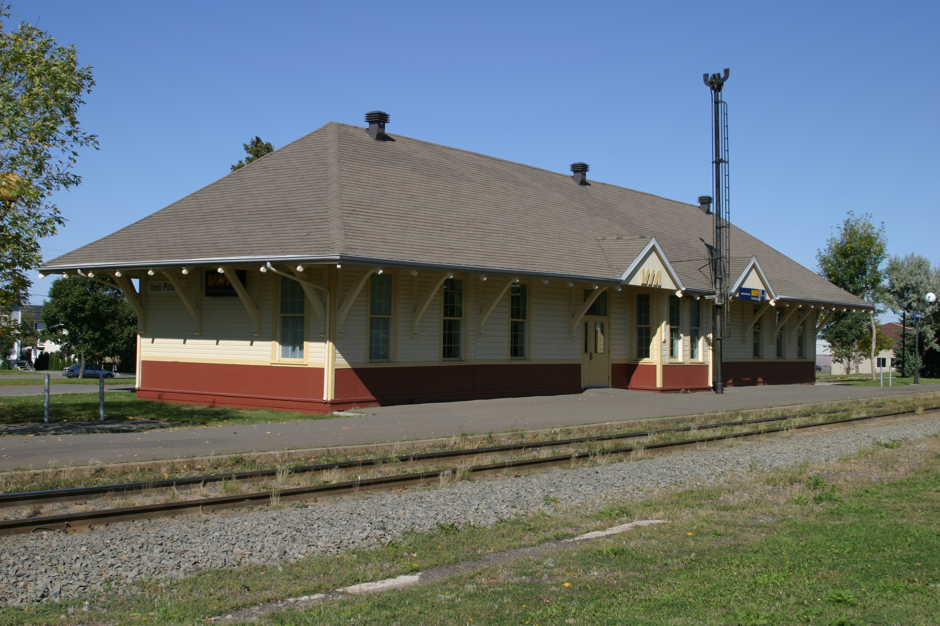 Via Rail's Trois-Pistoles train station.